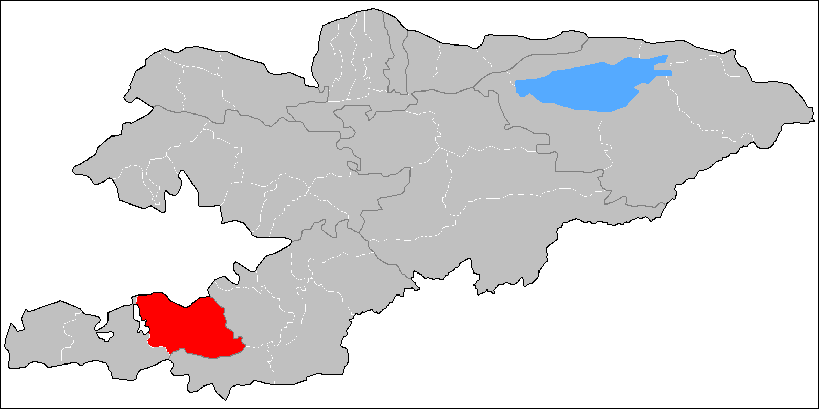 The location of the raion (district) of Kadamjay in Kyrgyzstan. Based on Image:Kyrgyzstan raions.png